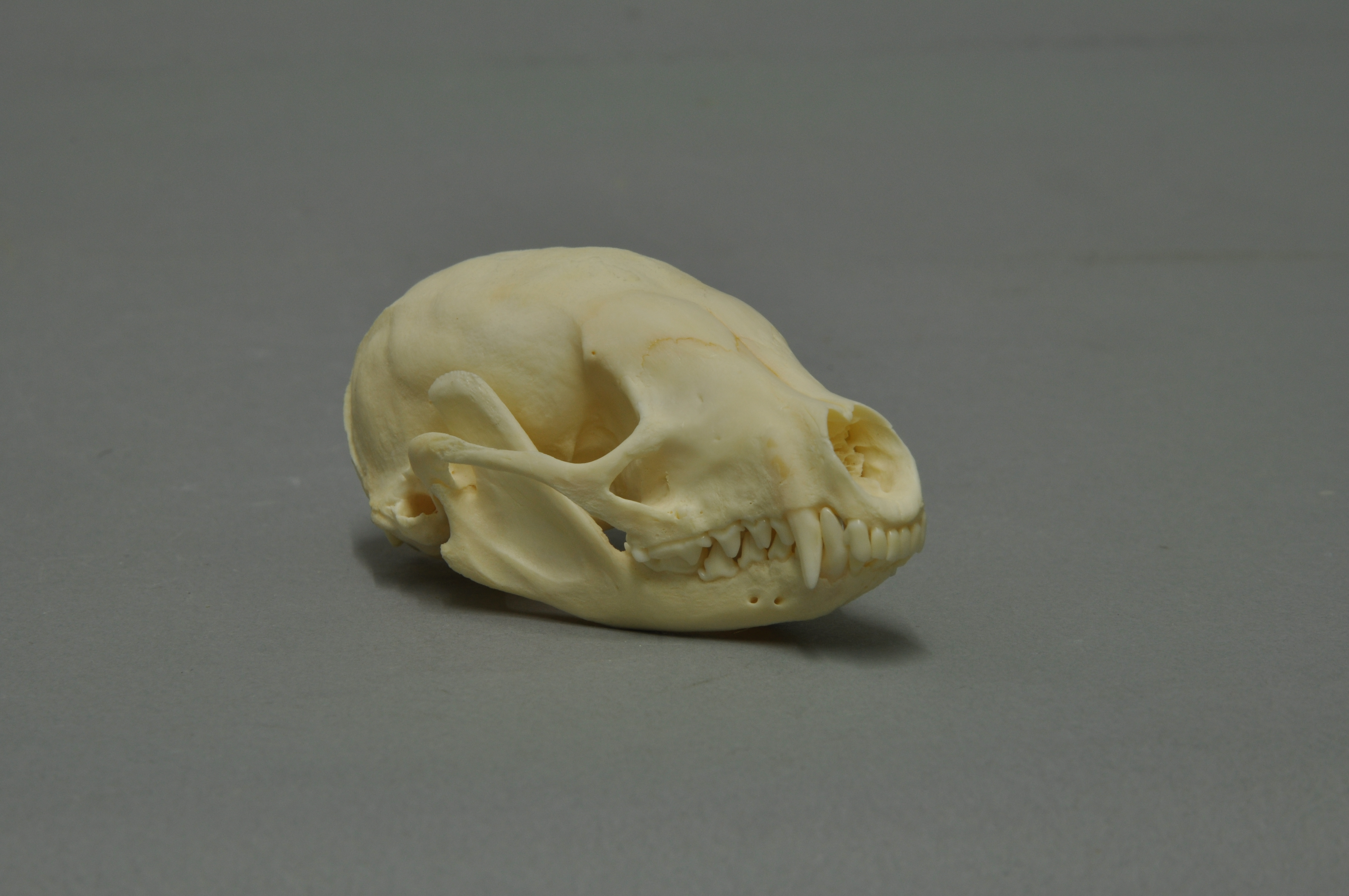 Chinese ferret-badger Melogale moschata , skull, Coll. Museum Wiesbaden